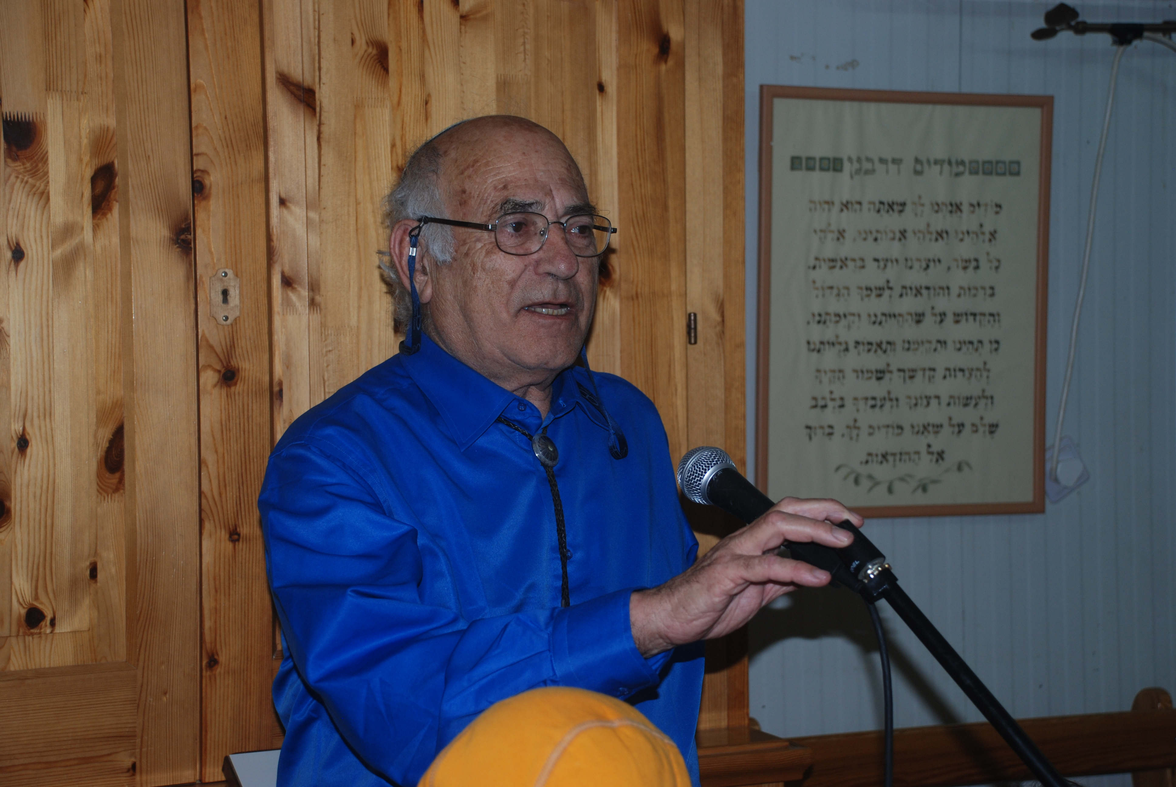 Professor Joseph Seckbach